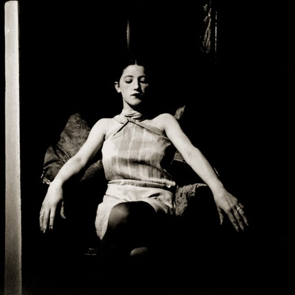 Barbara Sitting in Chair